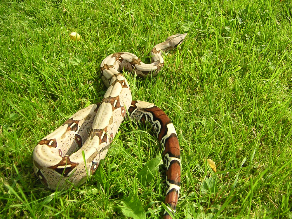 Snake, boa constrictor guyana red tail